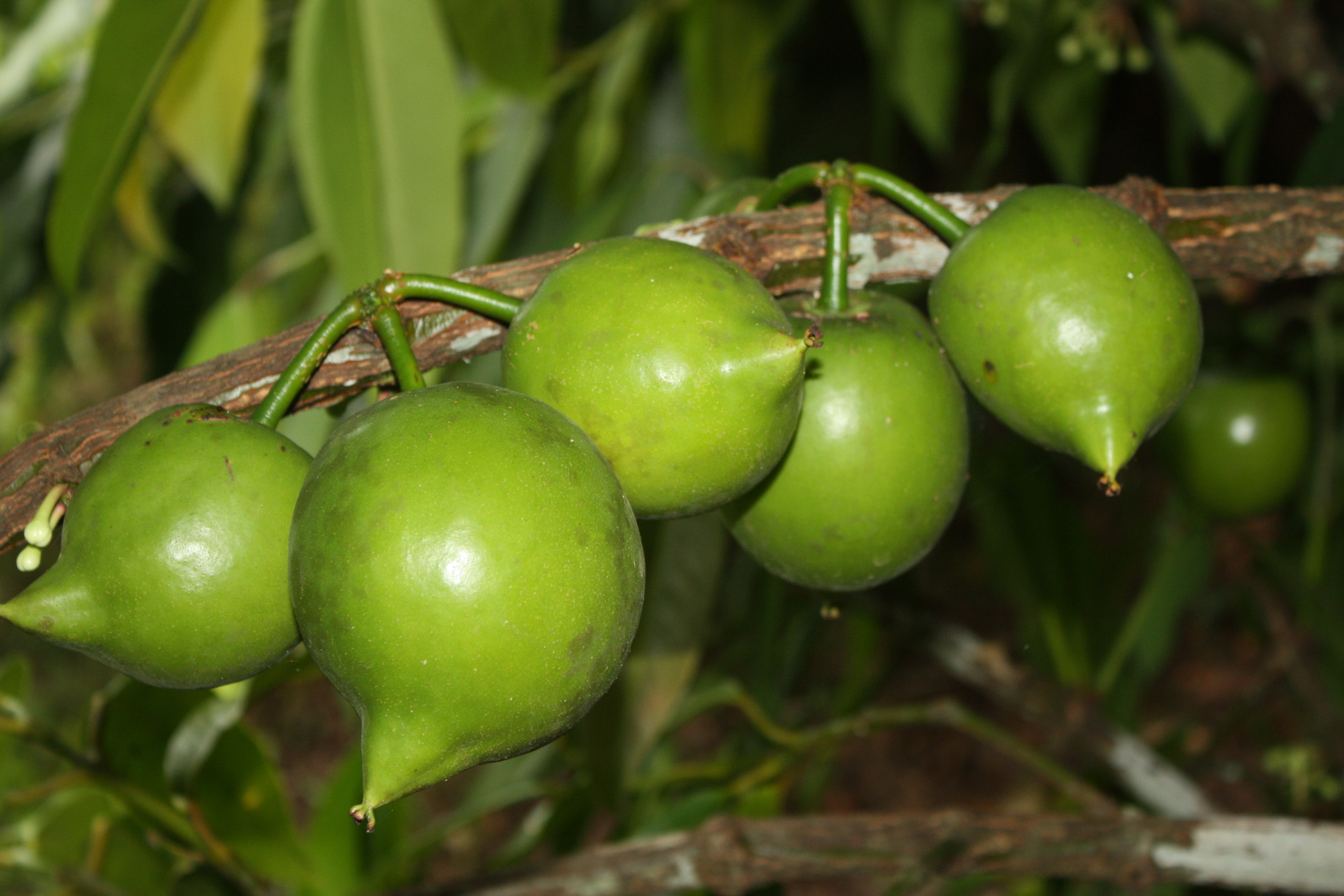 white sapote 1